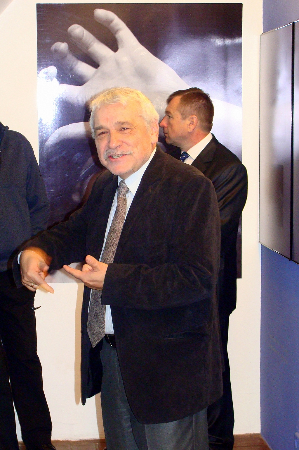 Wiesław Banach